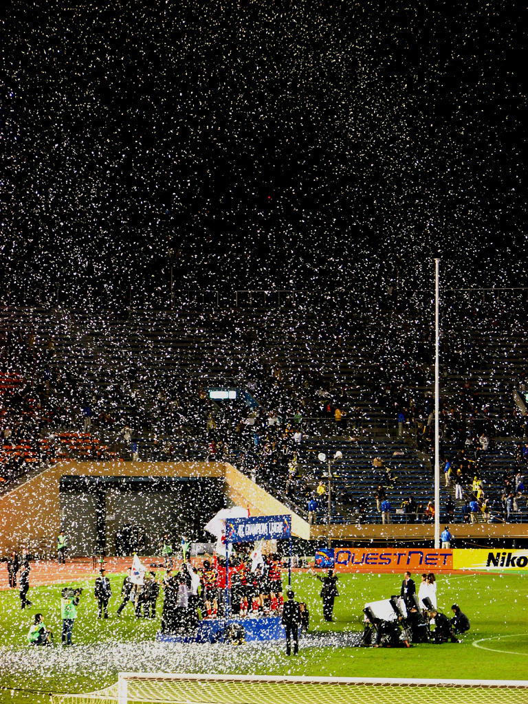 Al Itihad vs. Pohang Steelers (AFC Champions League Final)